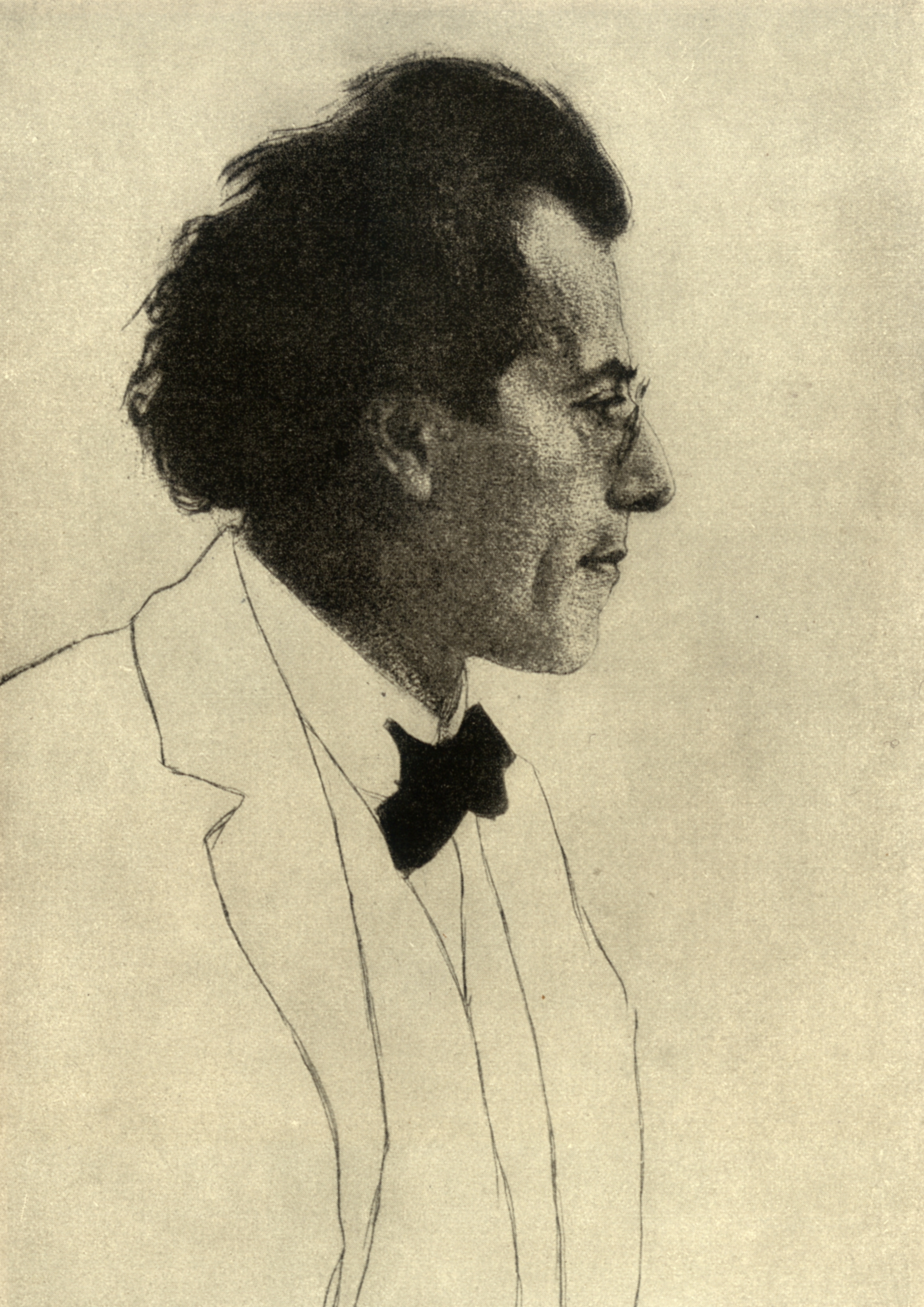 Gustav Mahler, photo of the etching by Emil Orlik (dimension of the plate: 12 1/8 x 7 15/16 in. / 30.8 x 20.2 cm); this etching was published (horizontally flipped) in the Groves Dictionary and New Outlook (1907), Volume 86, p. 891.